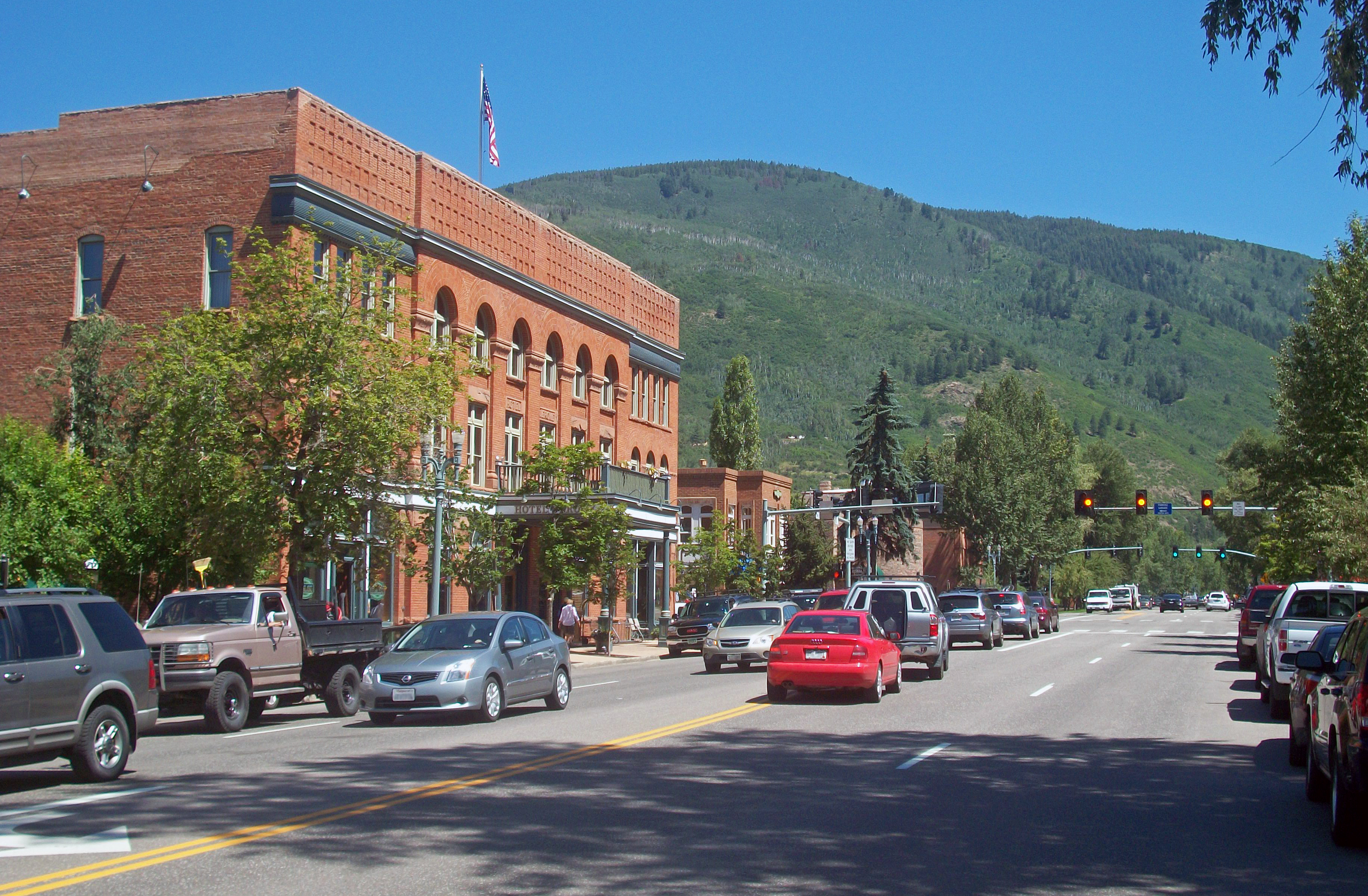 View east down Main Street (SH 82) past the Hotel Jerome in downtown Aspen, CO, USA